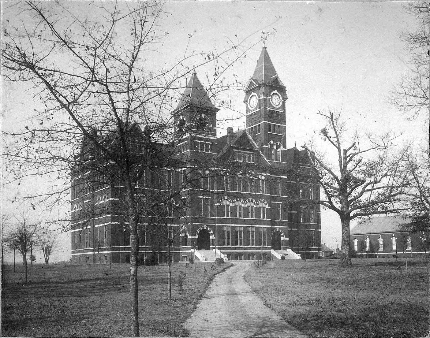 Samford Hall, located on South College Street in Auburn, Alabama, replaced the original building of the East Alabama Male College (now Auburn University) after it burned in 1887. Samford Hall currently houses the offices of the Auburn University administration. This photograph was first published in the 1897 Glomerata.[1]